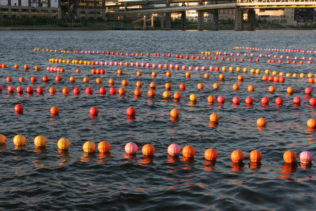 Three Rivers Arts Festival, Pittsburgh, PA 2005 3,000 painted buoys radiate out from the bulkhead of the Point State Park, like an eyelash for the city. The eyelash continuously changes formation in response to wind direction, speed of the currents and boat wakes.